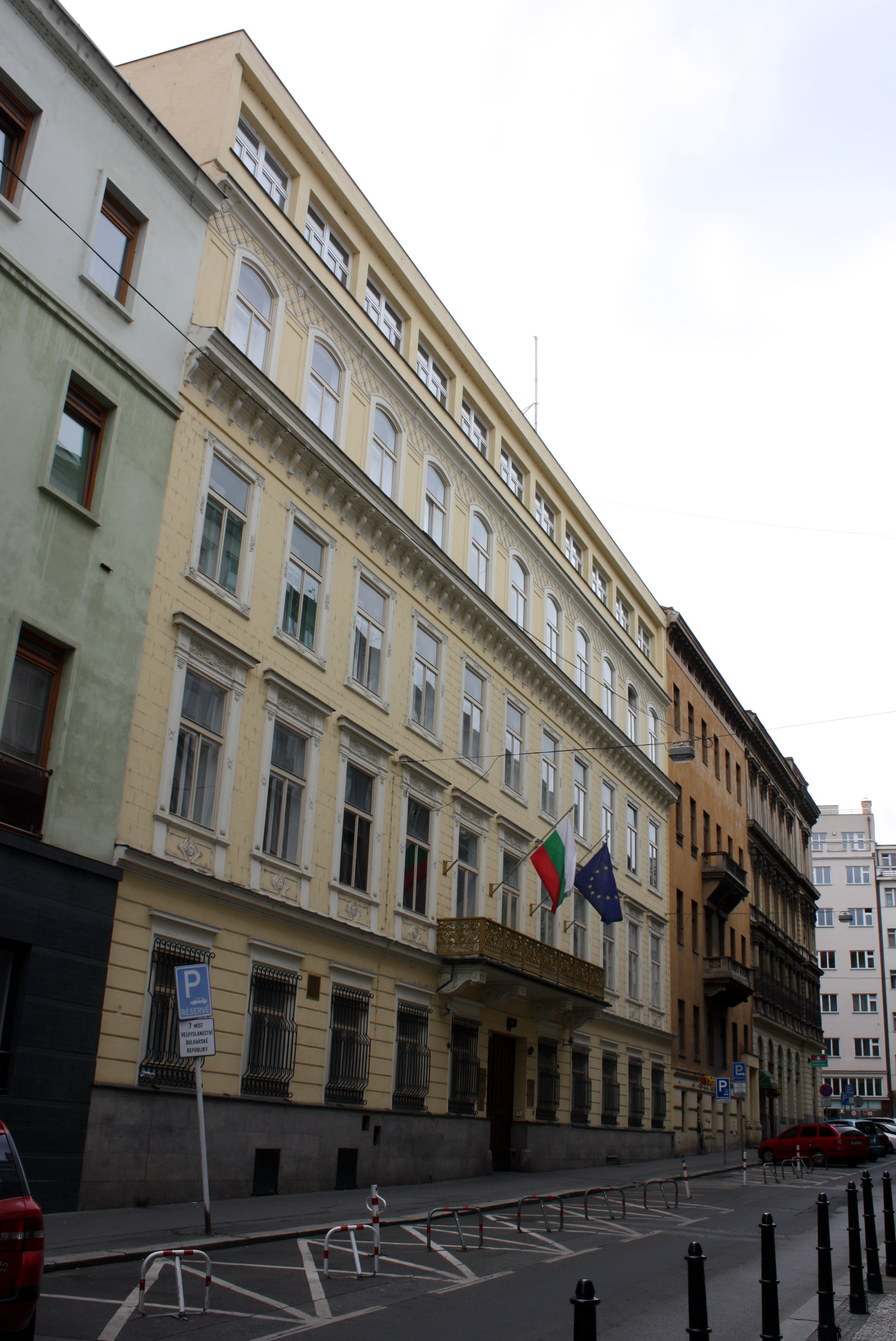 Embassy of Bulgaria in Prague, Czechia, Krakovská 580/6.